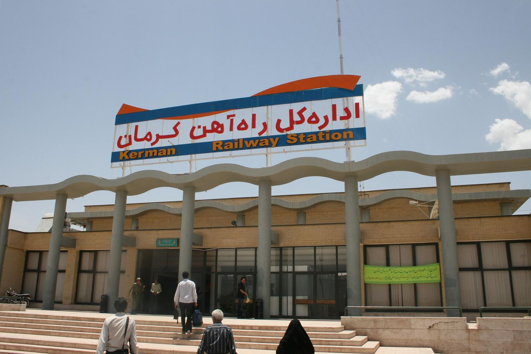 Modernist Kerman railway station — in Kerman, Kerman province, southwestern Iran.